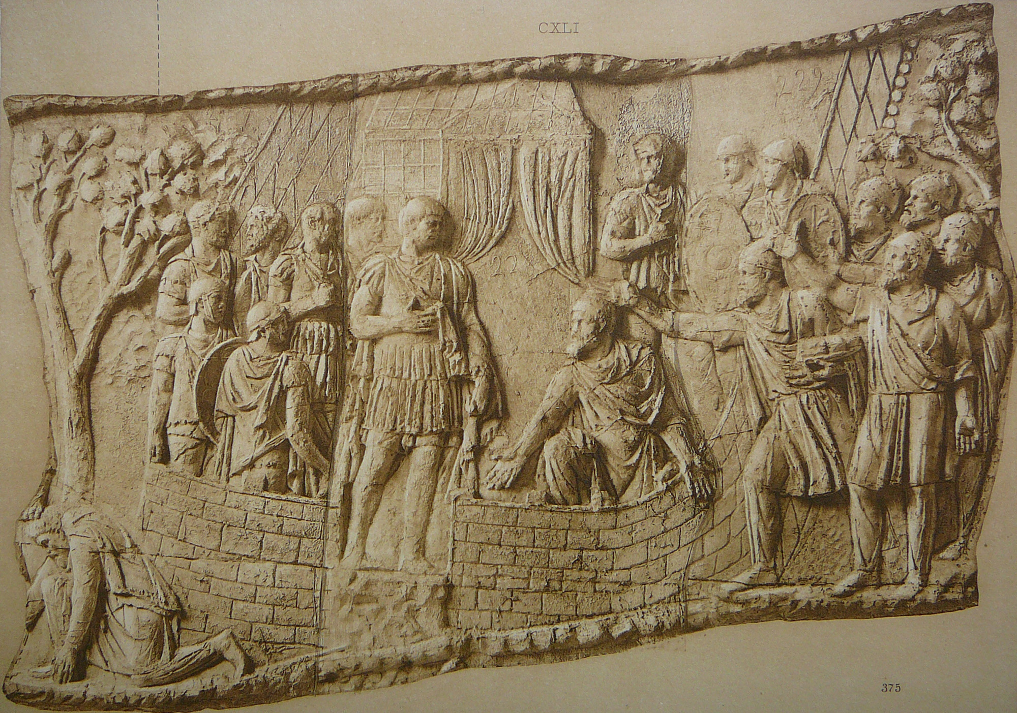 Retreat and suicide of Dacians (scene CXL); Dacian chieftains before Trajan (scene CXLI)